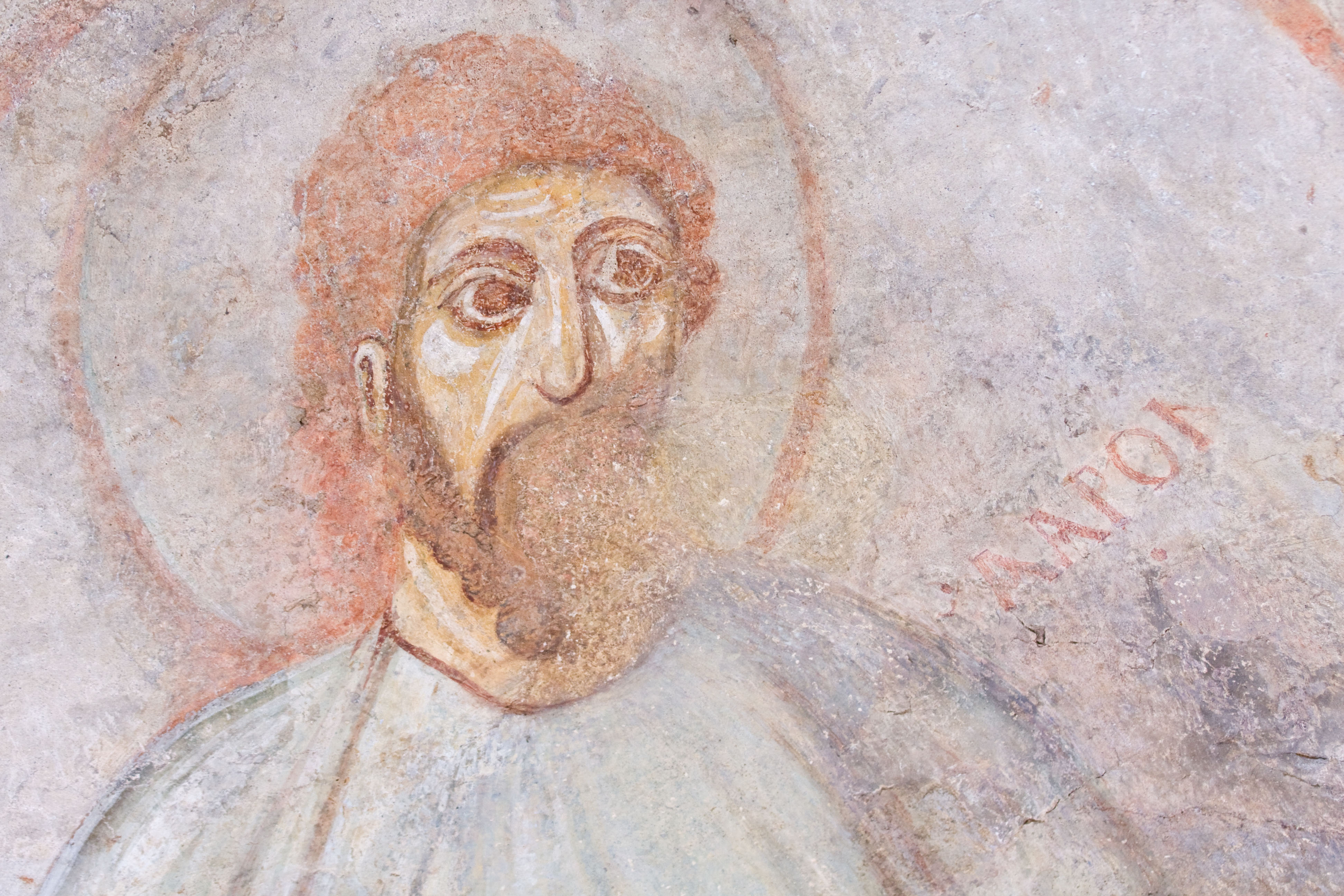 Red Church, Bulgaria, 2013 - Fresco of Aaron